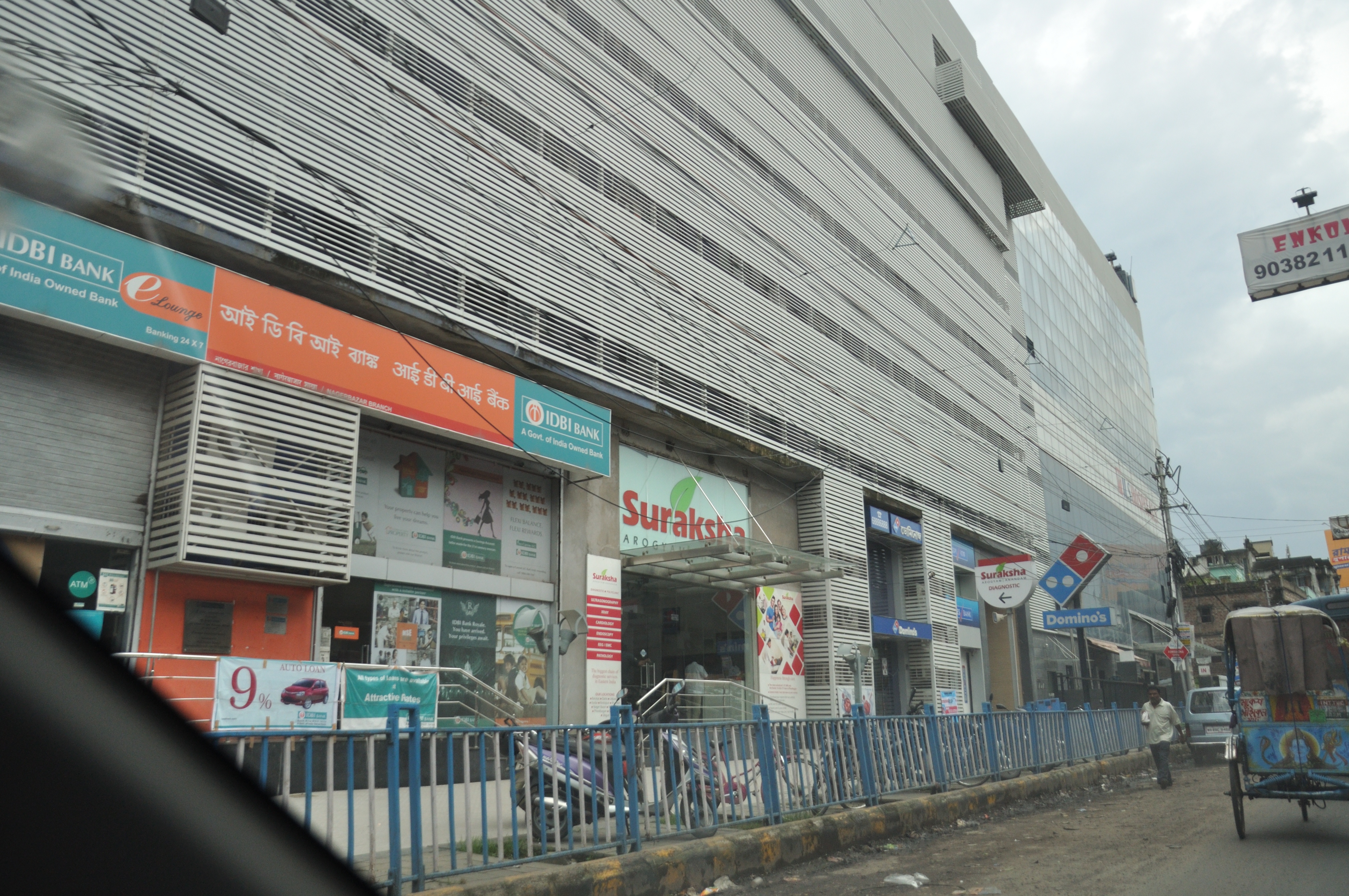 Photographed in Kolkata.